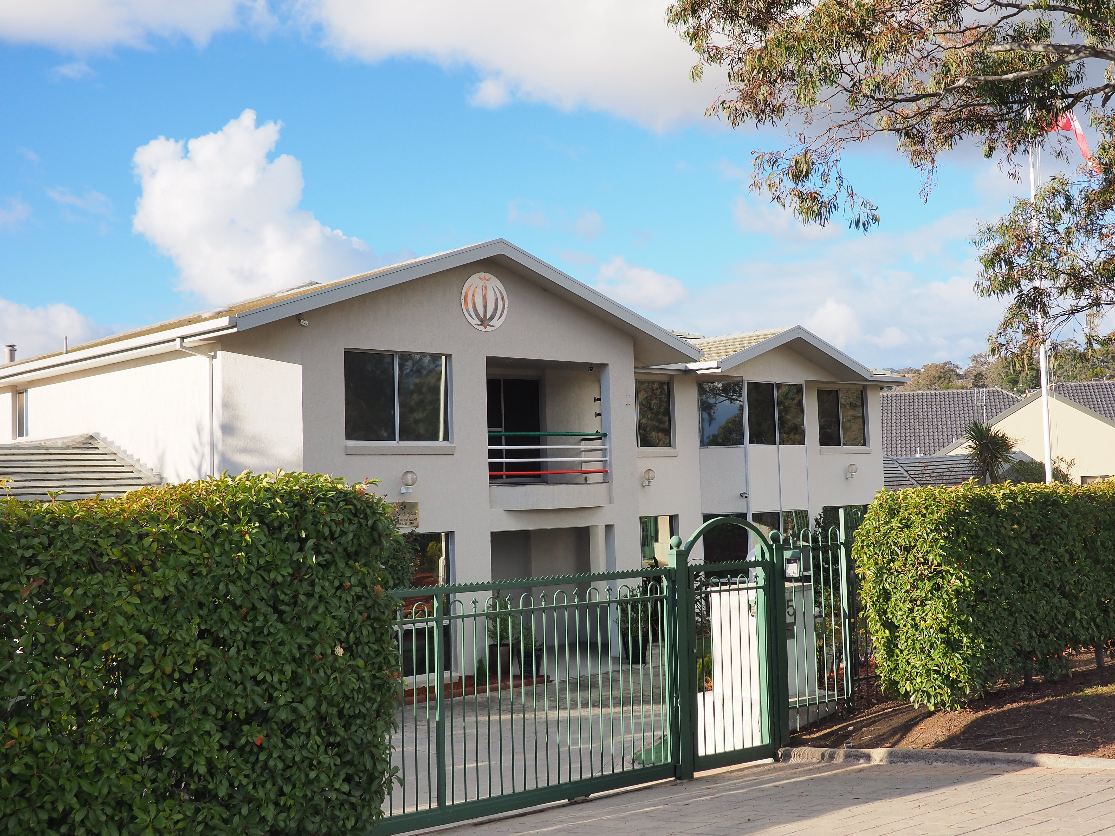 The Iranian Embassy to Australia